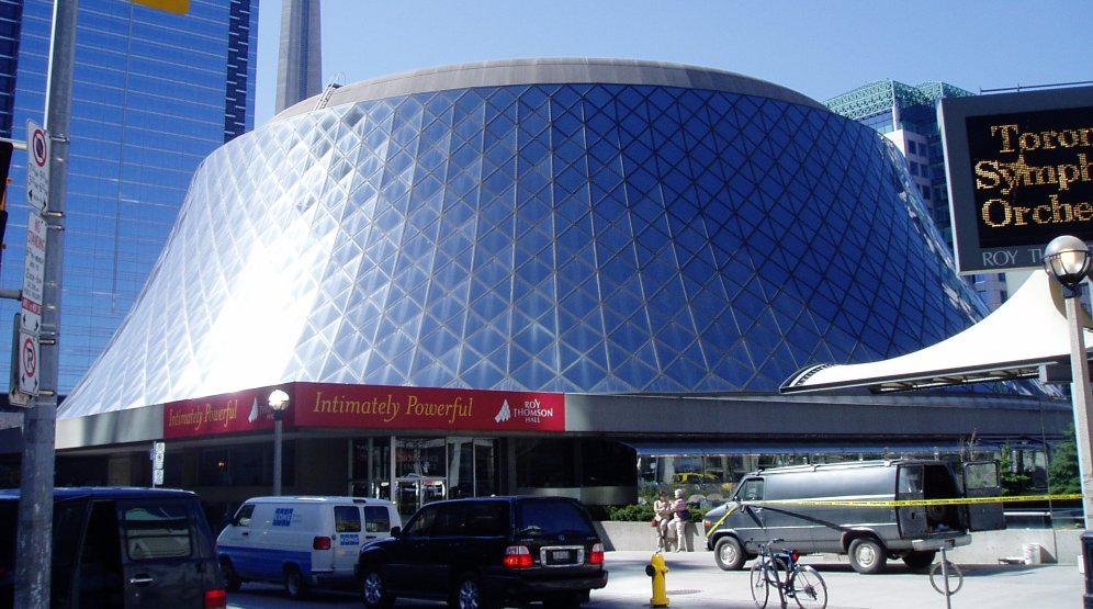 Taken by SimonP in April 2005